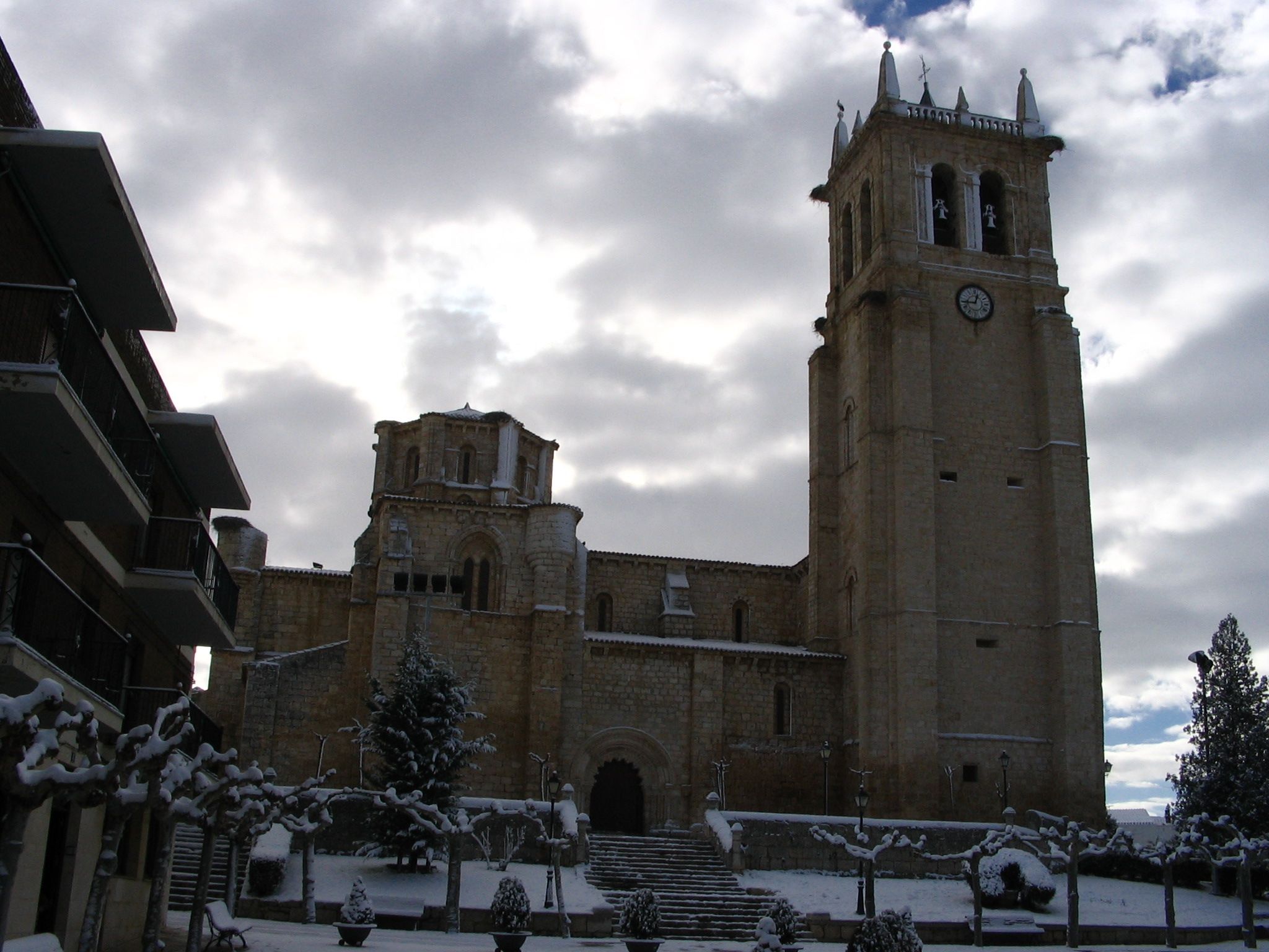 Vista norte de la Iglesia de Santa María de la mayor